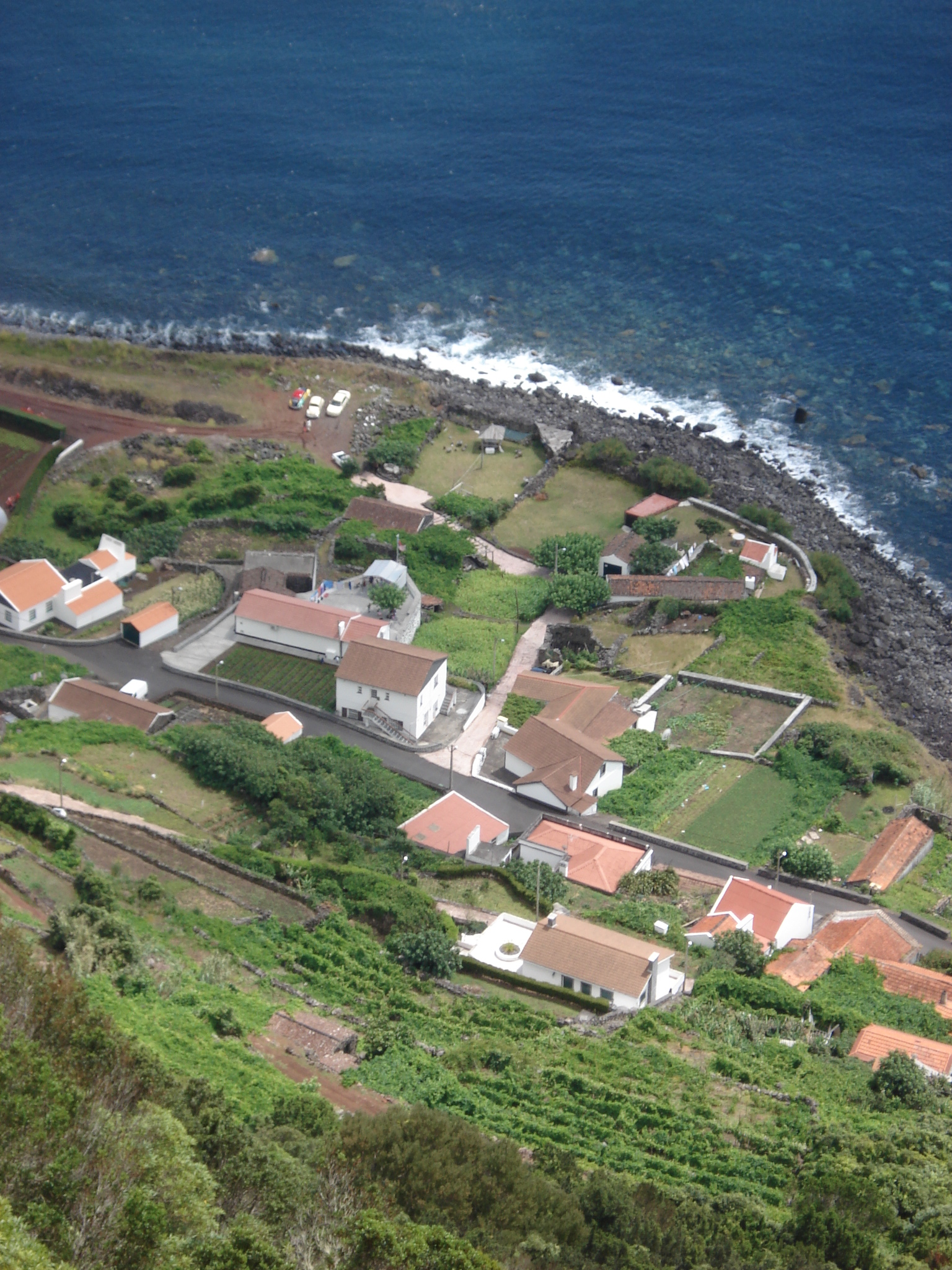 A view of th Fajã de Vimes, civil parsih of Calheta, municipality of Calheta (Azores), Portugal